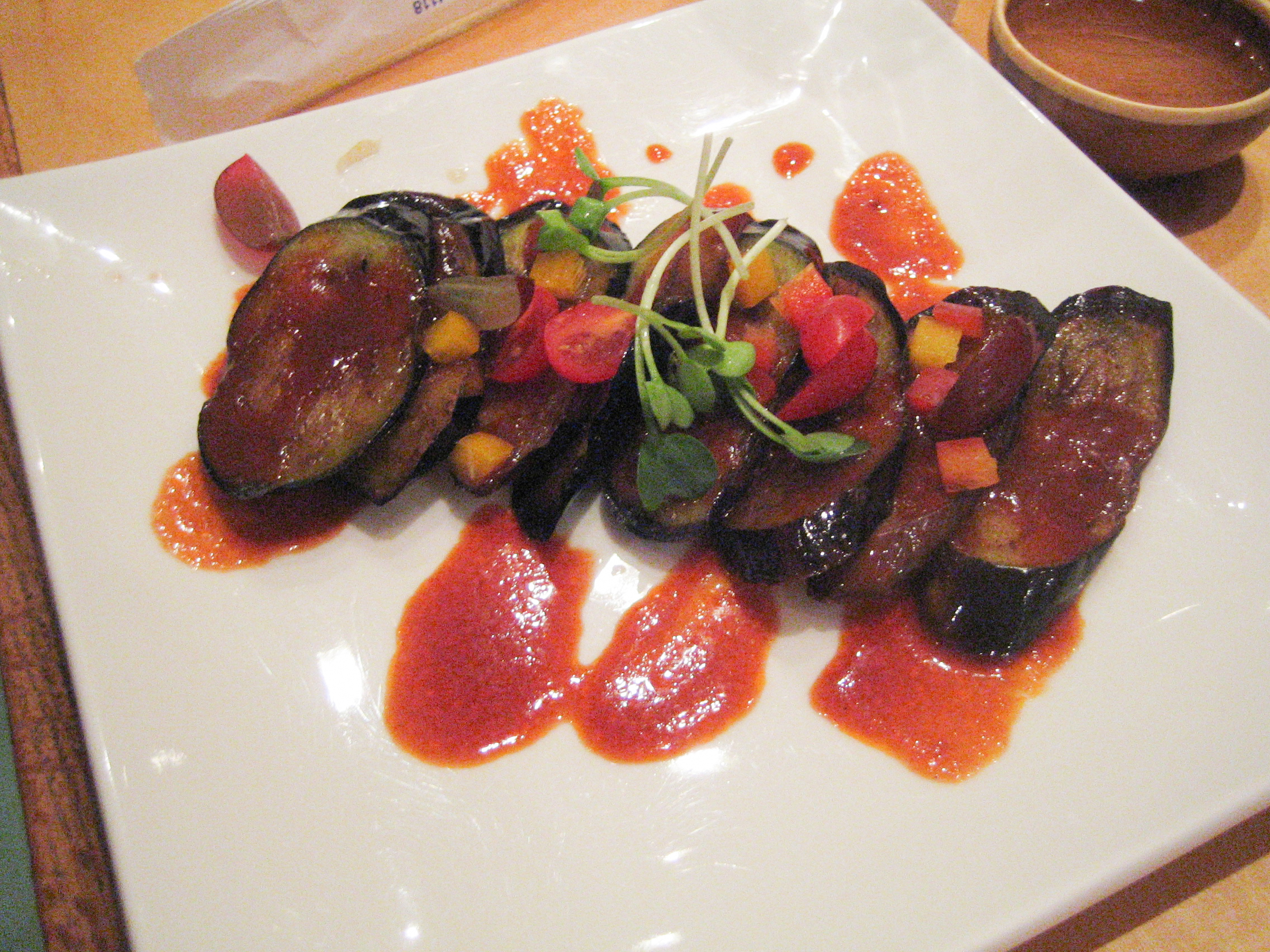 Grilled eggplant with miso.